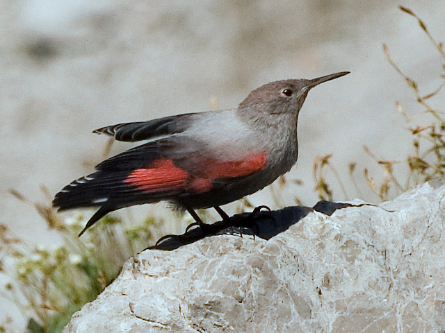 Subadult wall creeper (Tichodroma muraria)